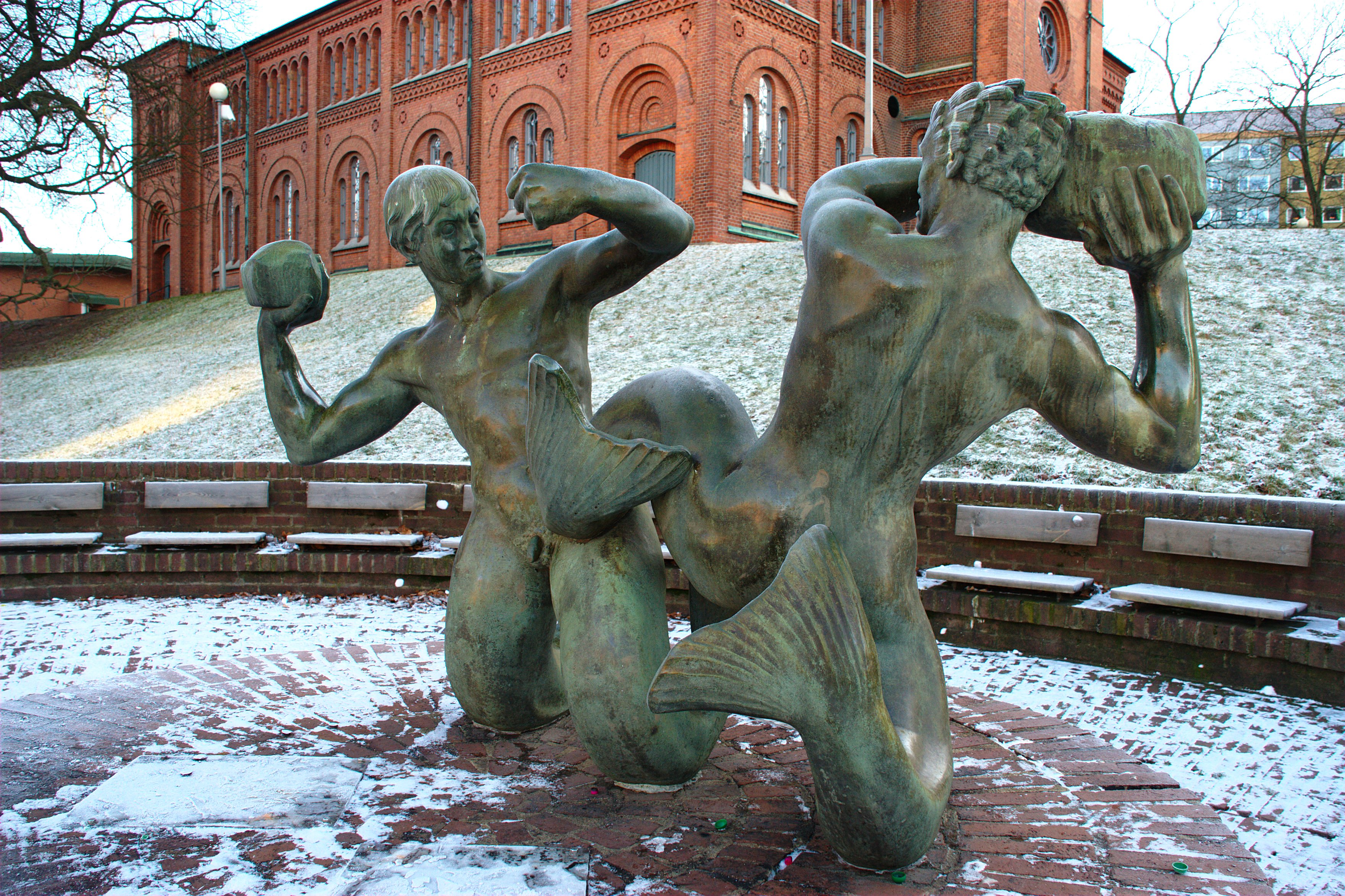 Sculpture "Elementens kamp" in Gothenburg, Sweden.